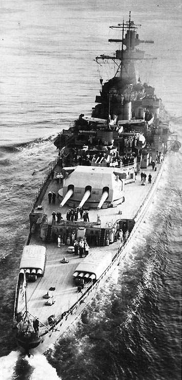 Admiral Graf Spee (German Armored Ship, 1936) Seen from astern, while underway in the English Channel. The original print is dated April 1939. Note the armored torpedo tubes on her after deck, triple 28cm gun turret and the Arado Ar 196A-1 floatplane on her catapult, amidships.